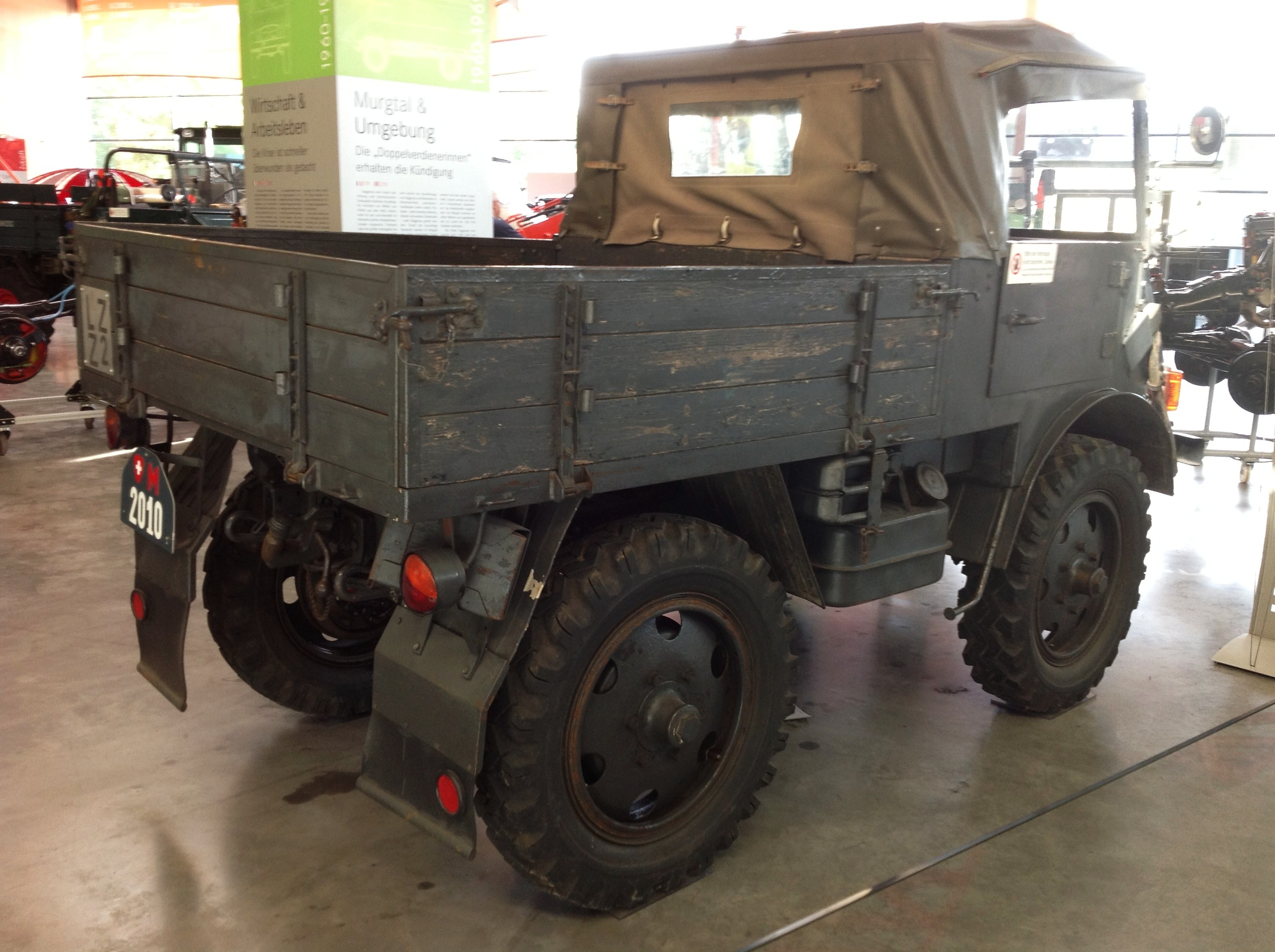 Unimog U2010, the first military version. In production between 1951 and 1953. This vehicle was in use by the Swiss Army.